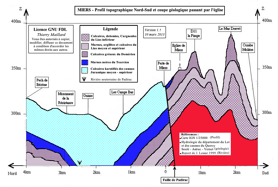 Miers (Lot - France) : geology of the ground in a North / South cutting plane envolving the church of Miers. It shows the influences of Padirac fault on the soil layers.